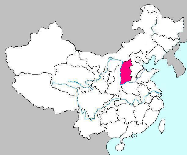 Maps of Shanxi Province of China